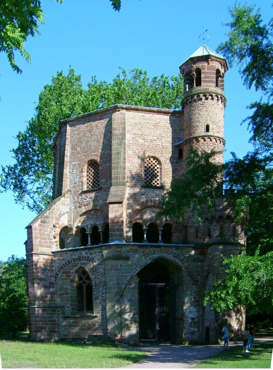 Alter Turm, Mettlach (resized with GIMP)